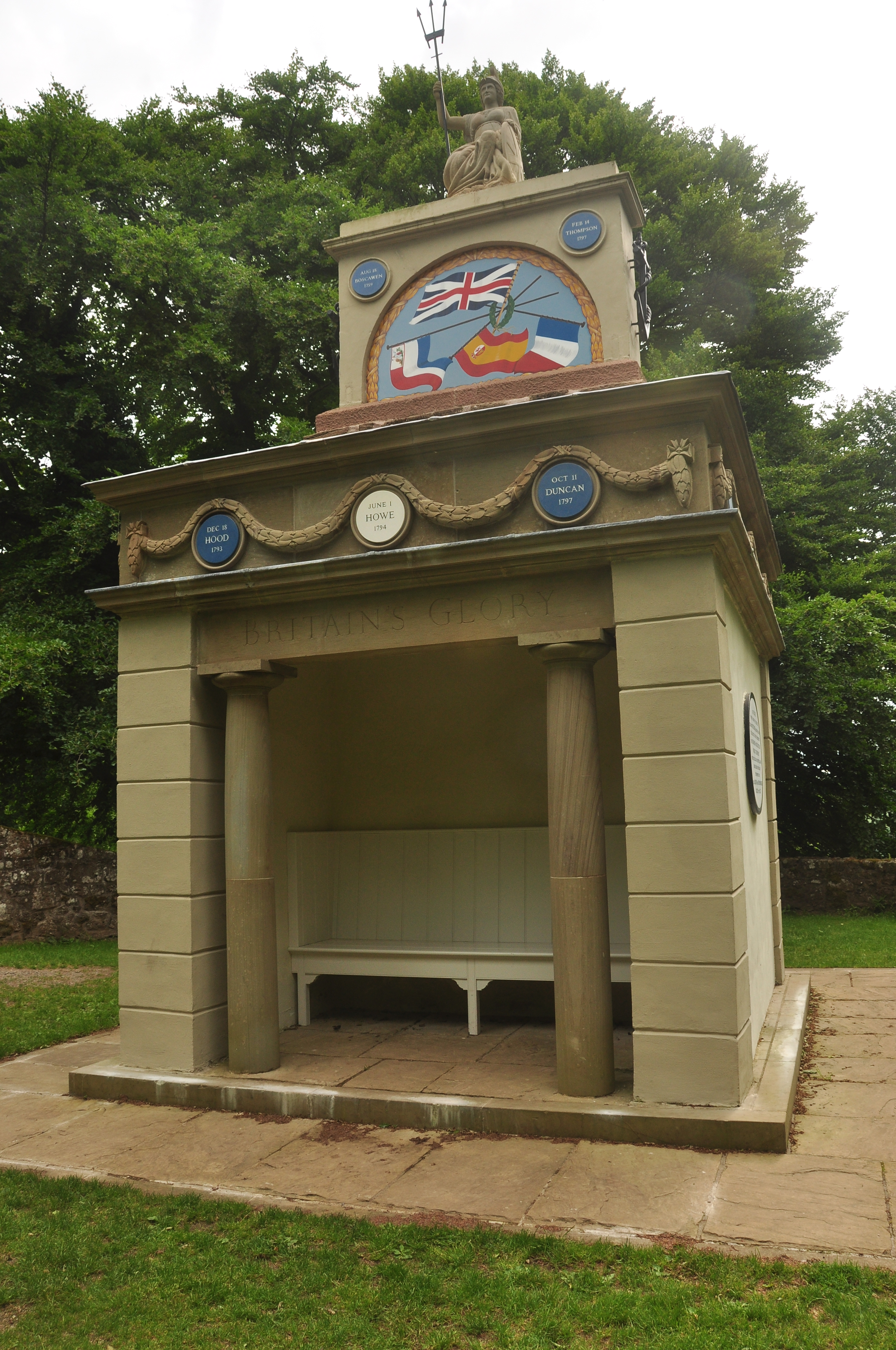 Naval Temple on the Kymin, Monmouth